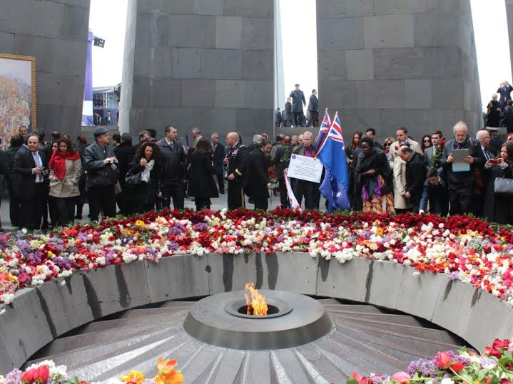 24 April 2015 Tsitsernakaberd, Yerevan